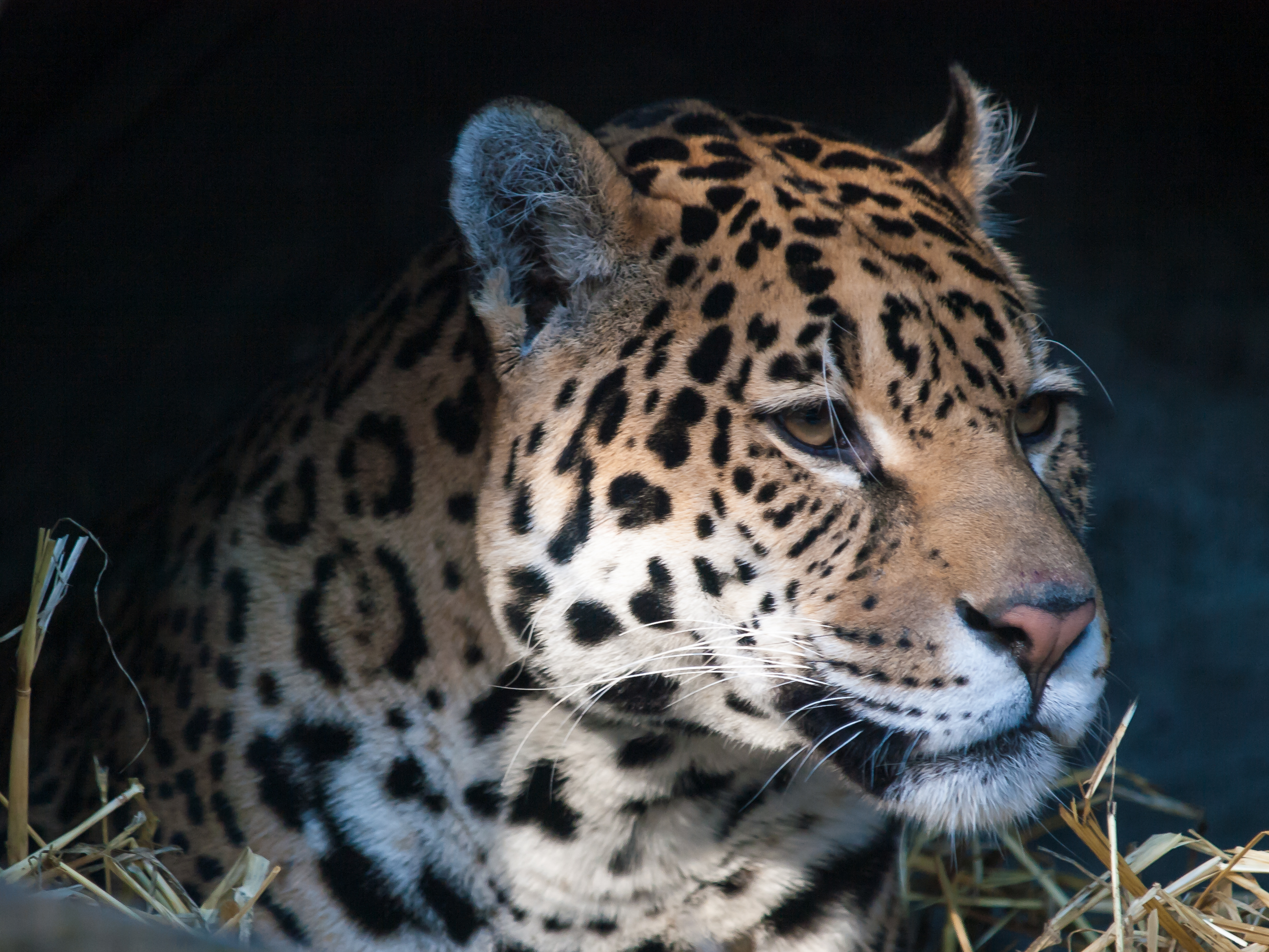 Jaguar at Edinburgh Zoo